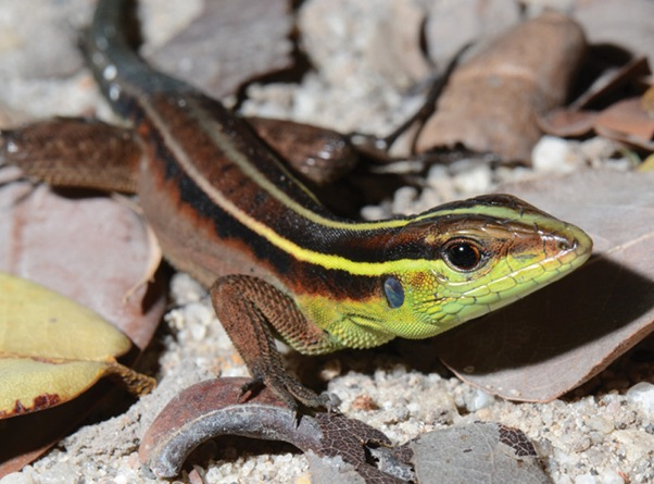 Kentropyx calcarata in Lençóis Maranhenses National Park, Maranhão State, Northeastern Brazil. Photo by J. P. Miranda.